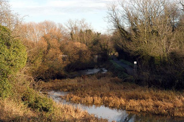 Lagan Canal (Disused) The disused Lagan Canal